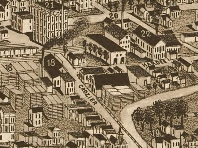 Detail of an 1886 map of Knoxville, Tennessee, USA, showing what is now the Old City. "Crozier" is now Central Street, and Hardee roughly corresponds with what is now East Jackson. The street running across the top of the image (the with the "20") is Depot Street. Building #18 is the Burr and Terry Sash Factory. Building #19 is the Elridge Carriage Factory. Building #20 is Beach's Marble Works. Building #21 is the City Mills factory (later White Lily Foods). Building #22 is the Knoxville Foundry and Machine Shop. First Creek, which has since been diverted, runs across the lower right. Originally published as part of "Knoxville, Tenn., County Seat of Knox County, 1886."